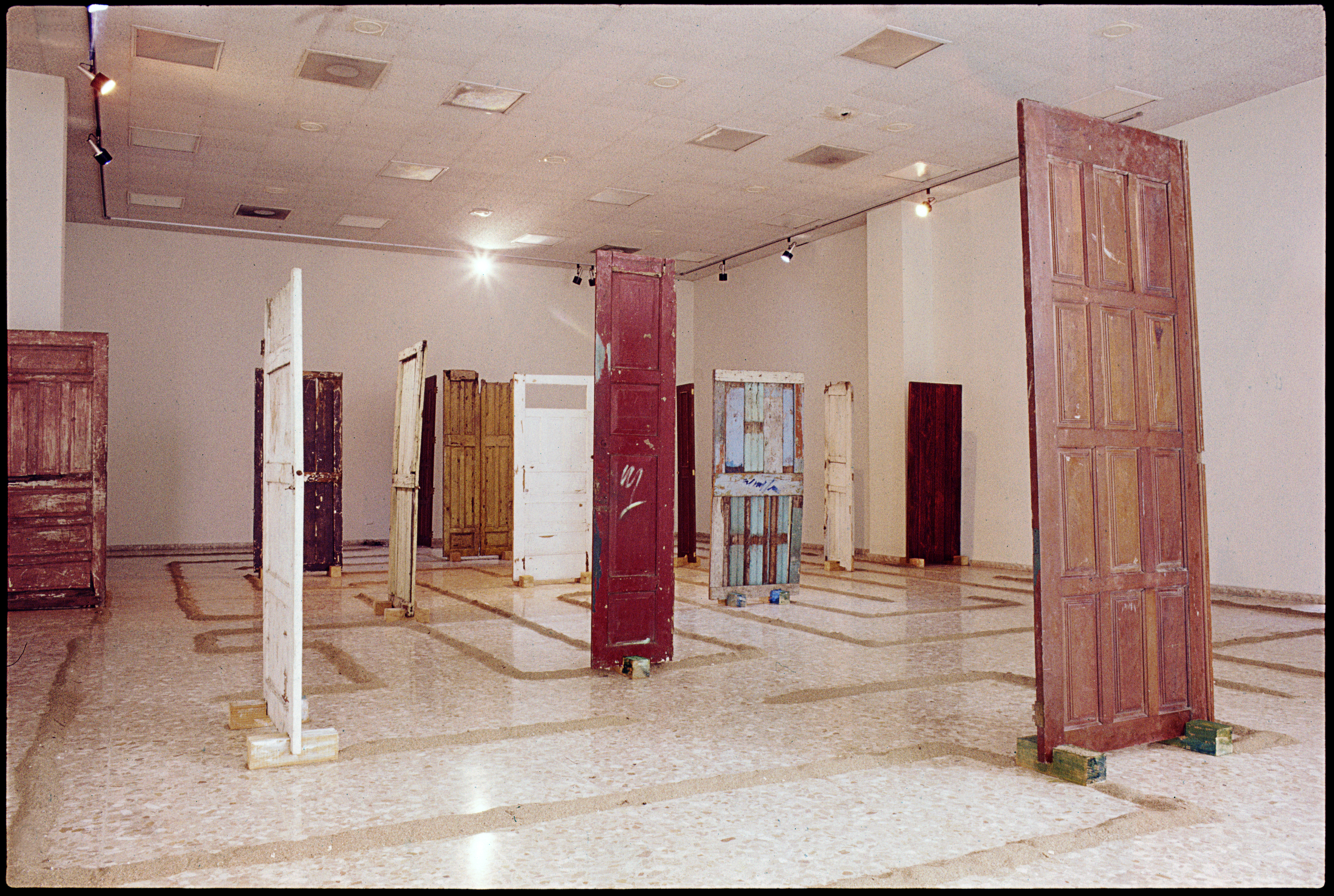 Images from Gladys Triana's installation